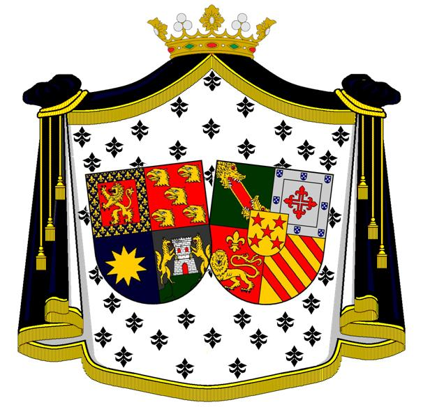 Coat of arms of the marquesses of Praia and Monforte